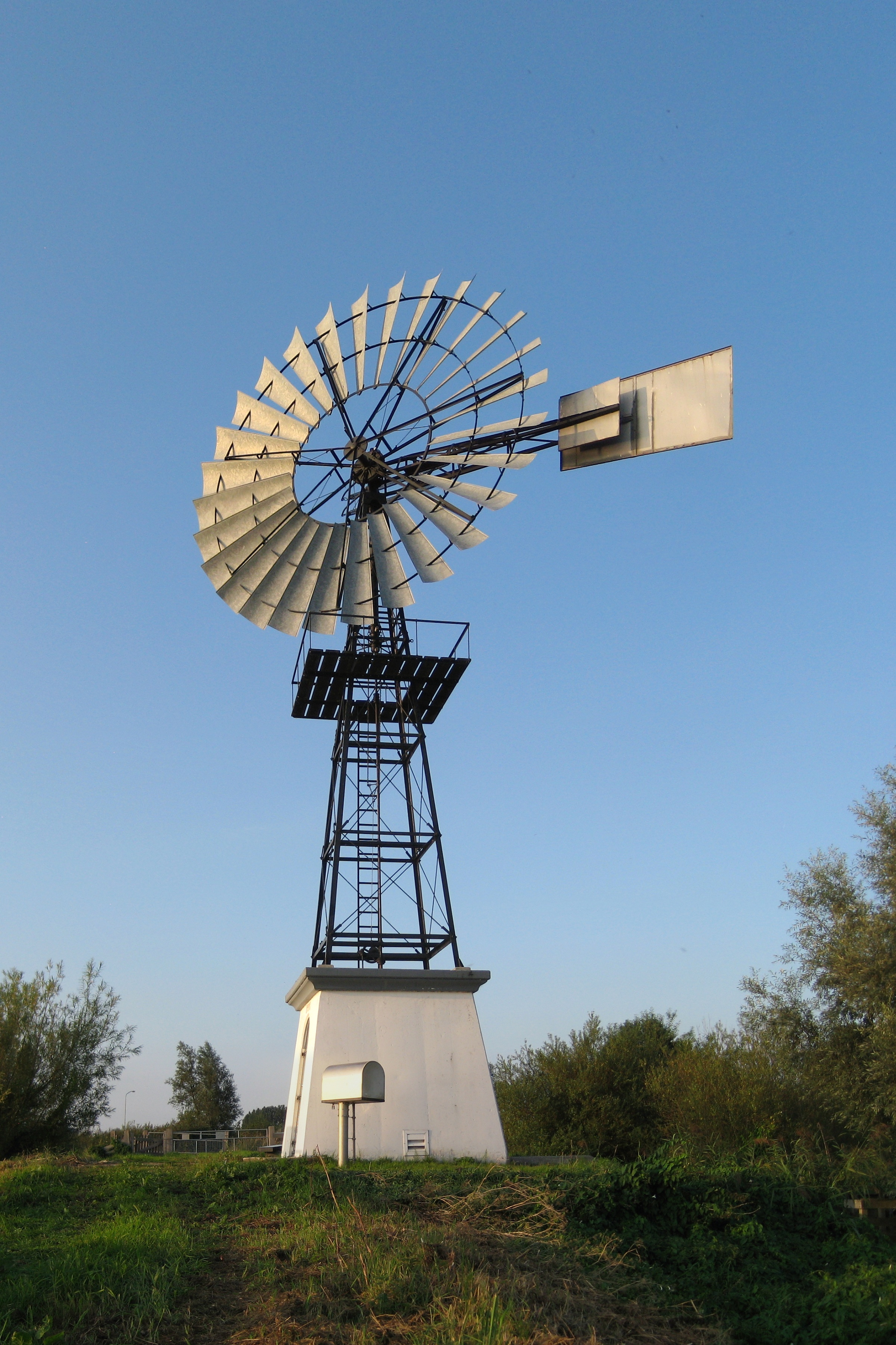 Koetze Tibbe (1918/2004), a wind pump in the Dutch province of Groningen.